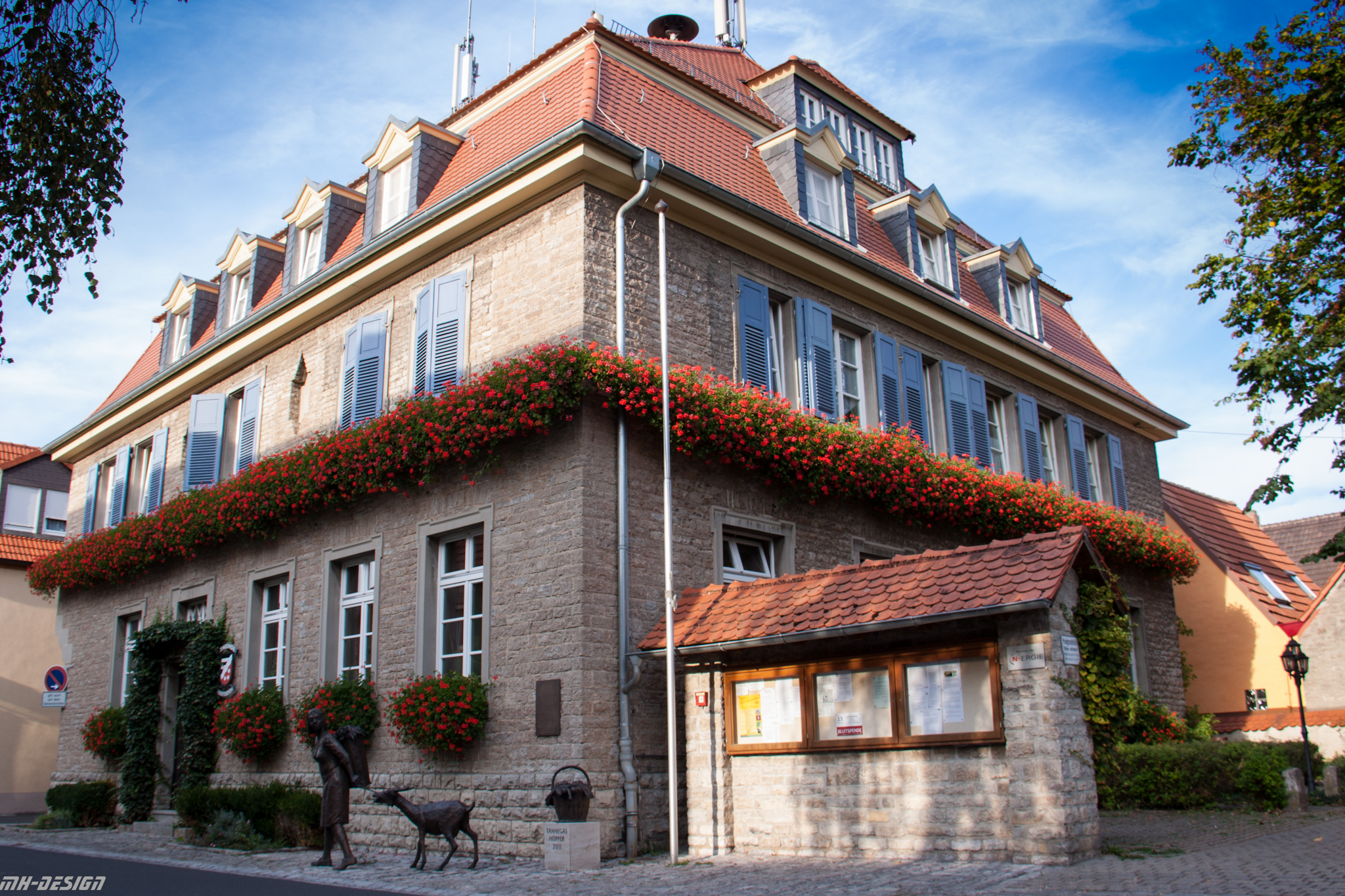 Rathaus in Albertshofen This is a photograph of an architectural monument.